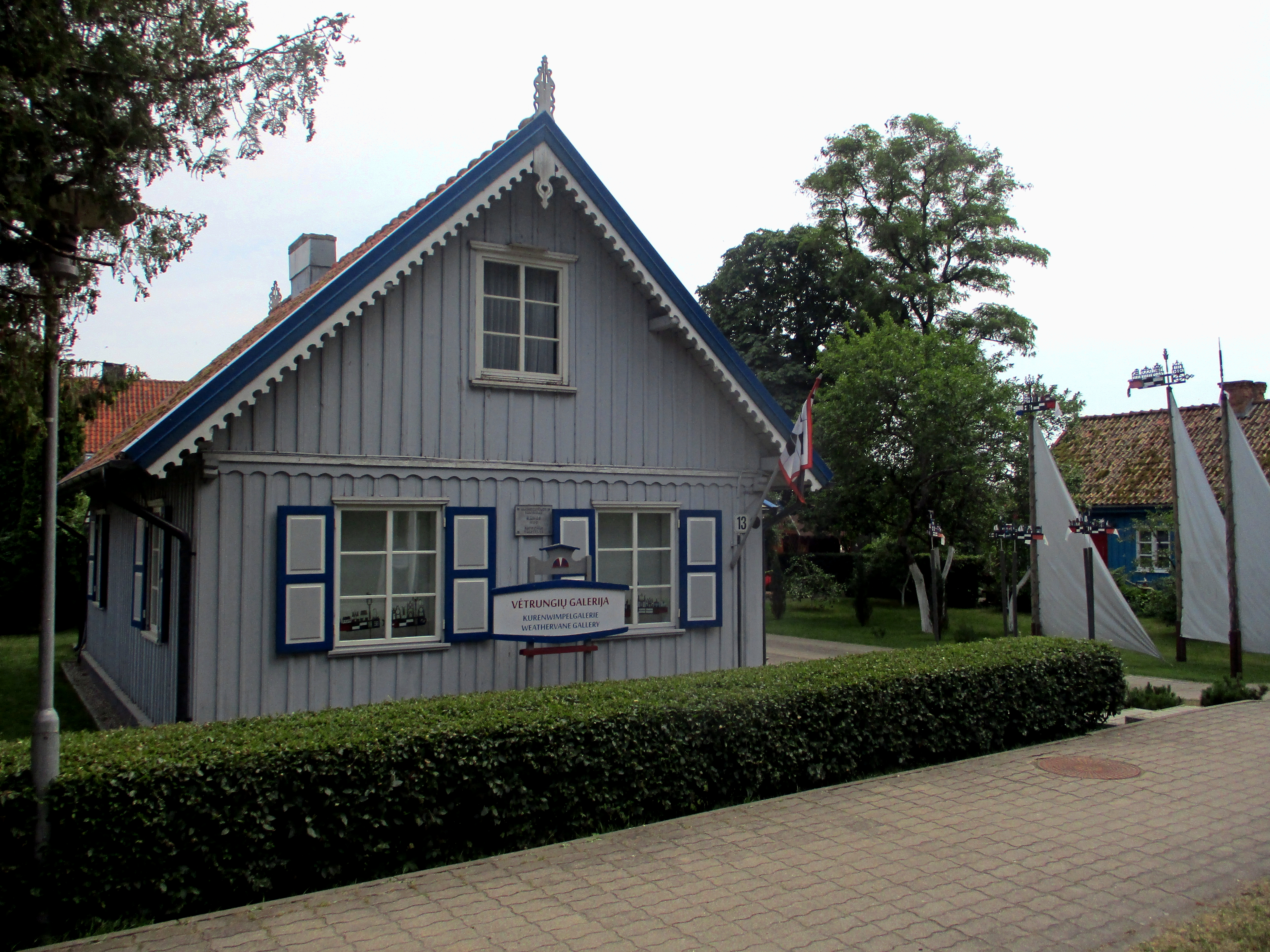 Weatherwane gallery in Juodkrantė.